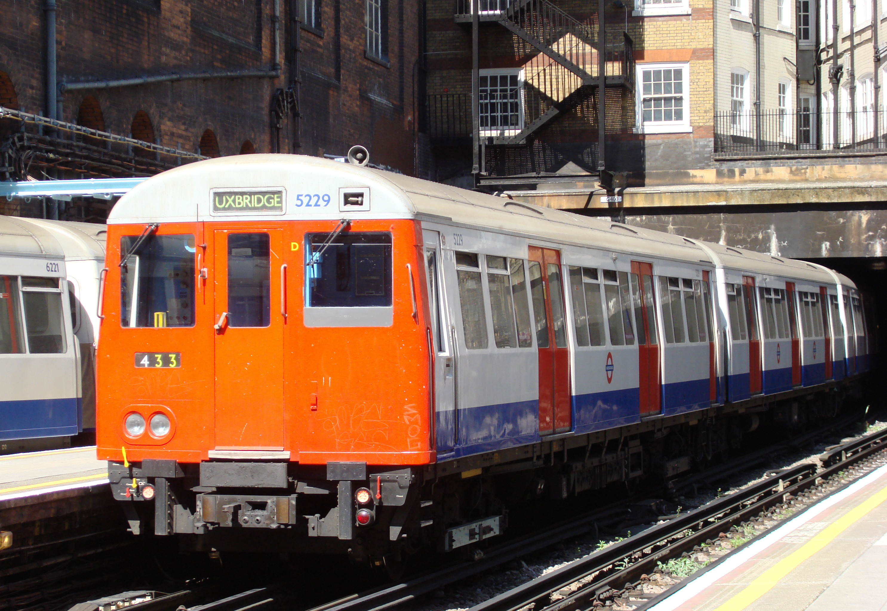 A train of London Underground A60 Stock leaves Baker Street Station